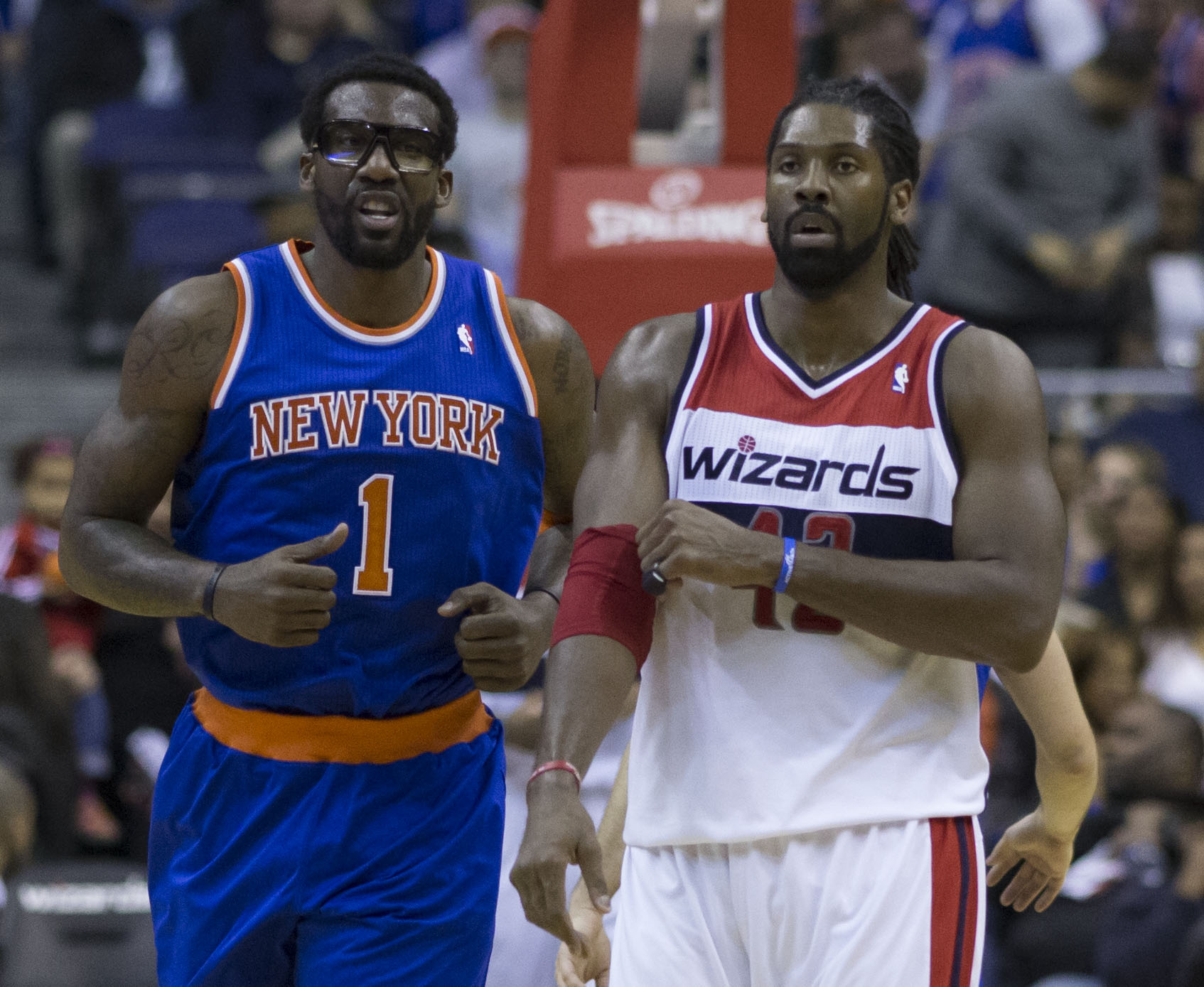 Knicks at Wizards 11/23/13